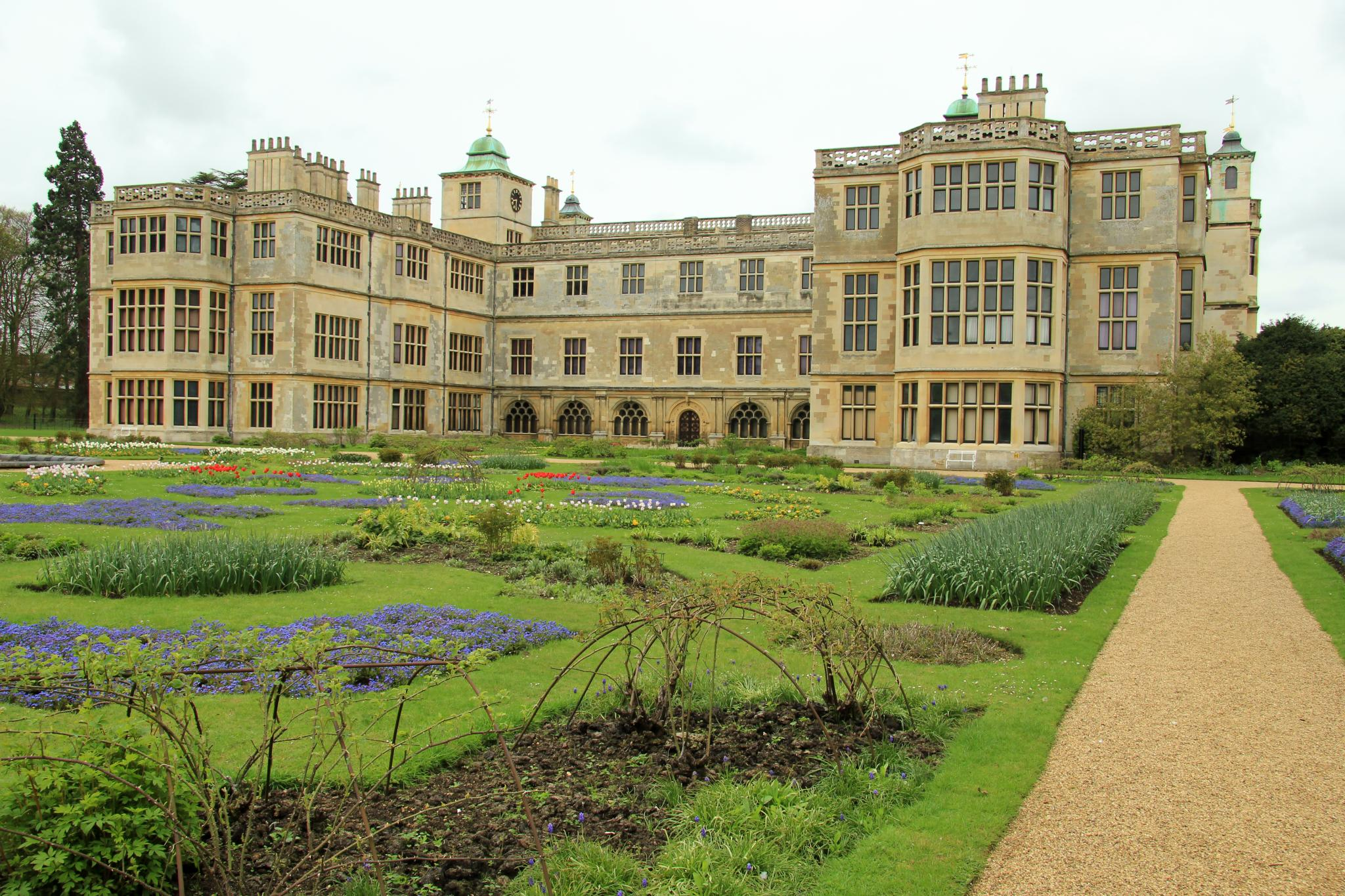 May Day at Audley End Roll up, roll up and see May Day fun as it used to be! Enjoy our Victorian side shows and brass band, and marvel at our incredible displays of Victorian falconry. Then watch as your little ones learn circus skills or take part in a play. All of which, coupled with the spectacular house and grounds at Audley End, is sure to make this a day out to remember for all the family! Enjoy a great day out at one of England’s grandest stately homes; Audley End House. The doors of our restored historic stables recently opened, complete with resident horses and a Victorian groom. Our stables experience includes an exhibition where you can find out about the workers who lived on the estate in the 1880s, the tack house and the Audley End fire engine. Try our dressing up clothes in the stables and meet our horses, Duke and Jack, too. Children can let loose in our fun themed play area next to our Cart Yard Café which is always very popular with visitors. Audley End House itself is a magnificent house, built to entertain royalty, and includes a Victorian Service Wing complete with kitchen, laundries and a dairy. With beautiful grounds to explore, including an impressive formal garden and the working Organic Kitchen Garden, there’s so much to see and do at Audley End House. Originally adapted from a medieval Benedictine monastery, the house and gardens at Audley End were amongst the largest and most opulent in Jacobean England. Today Audley End is set in a tranquil landscape with stunning views across the unspoilt Essex countryside. Visitors can enjoy the painstakingly restored parterre with its eye-catching bedding scheme and a walled kitchen garden run entirely on organic principles. It's possible to see elements of English gardening on a grand scale at Audley End carried out by the most influential designers of the day such as Lancelot ‘Capability’ Brown.